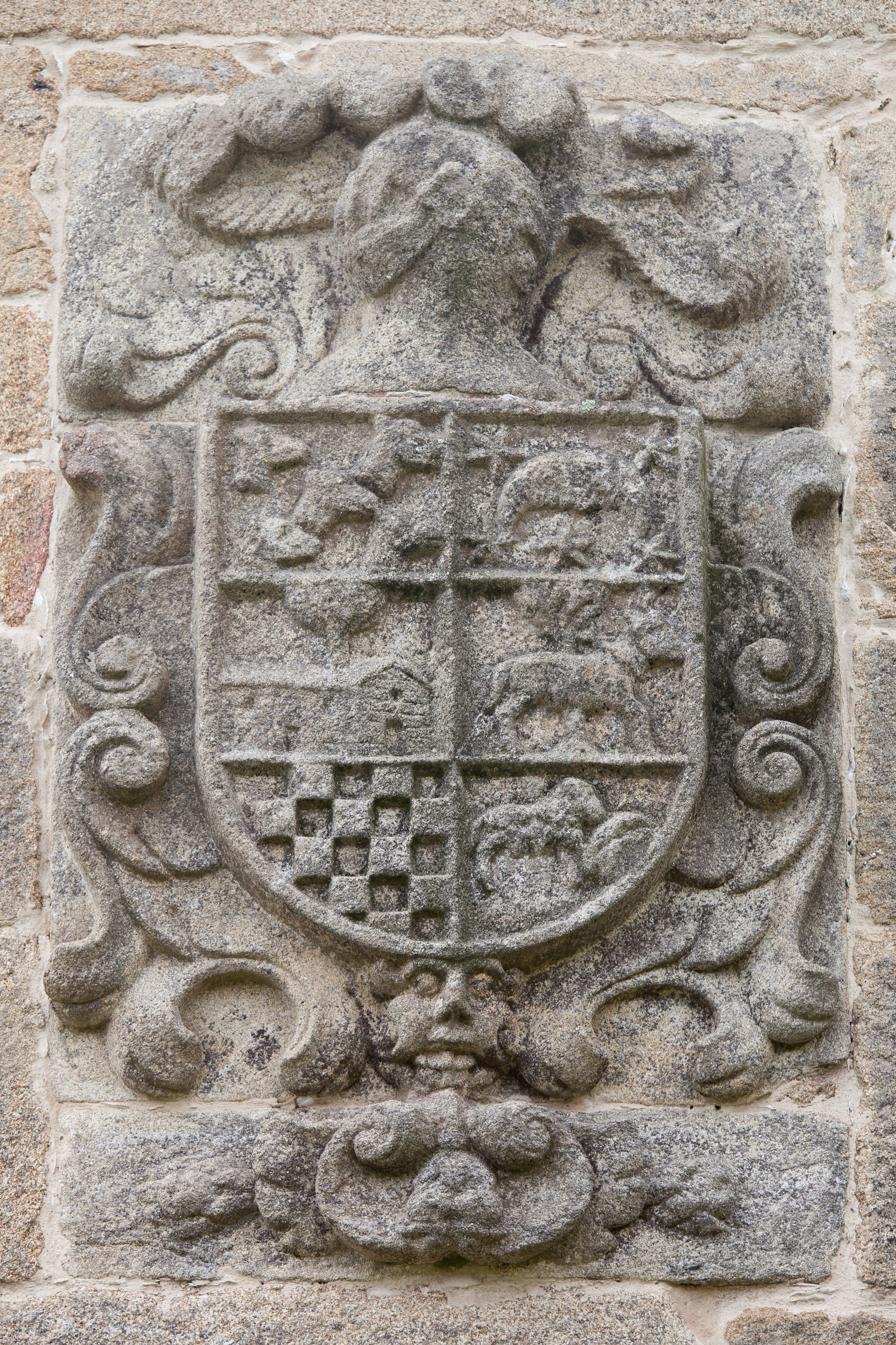 Coat of armas of Lestrobe Towers or Hermida Palace, Lestrobe, Dodro, Galicia (Spain)